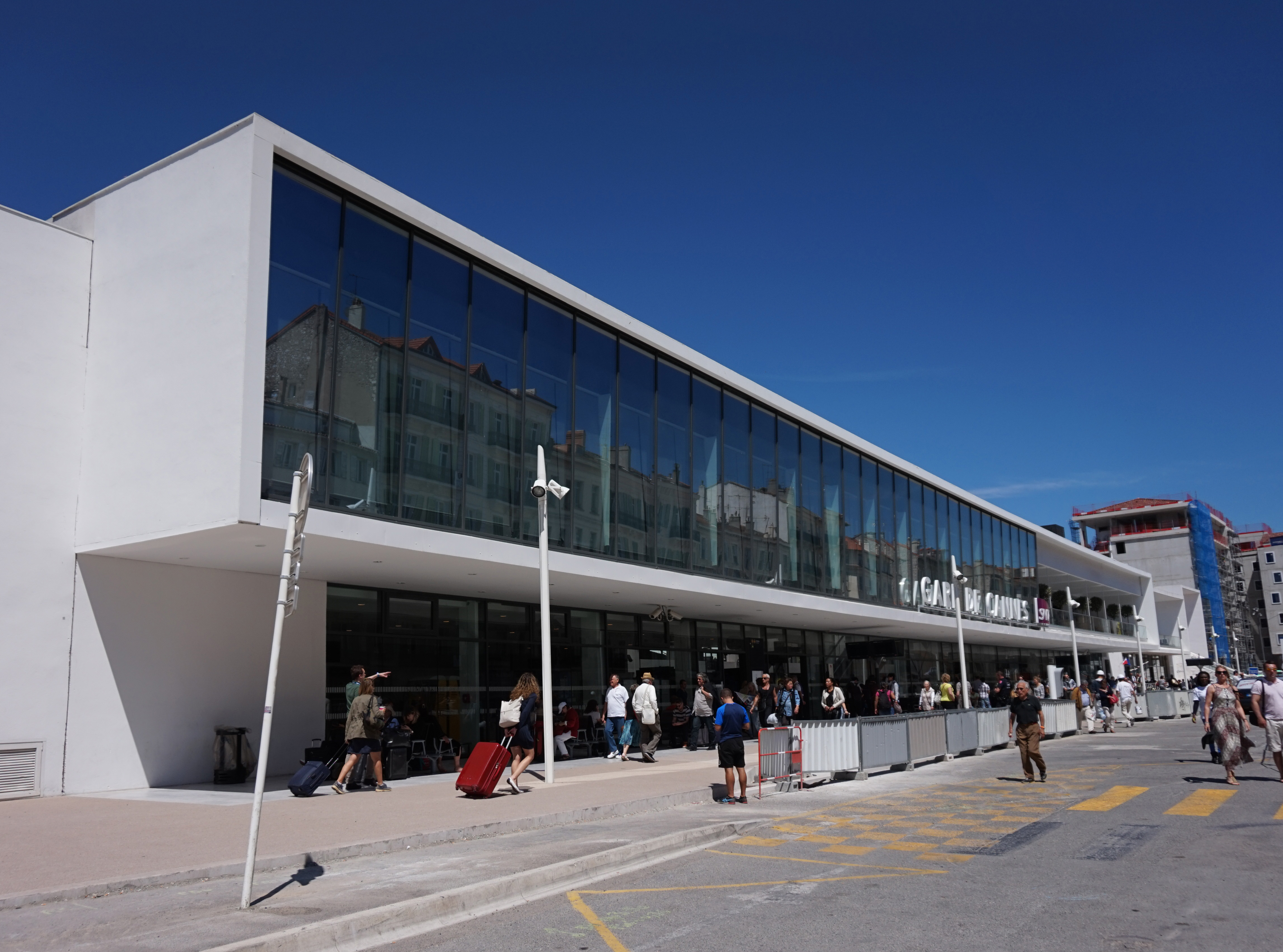 Gare de Cannes This photograph was taken with a Sony Alpha a5000.